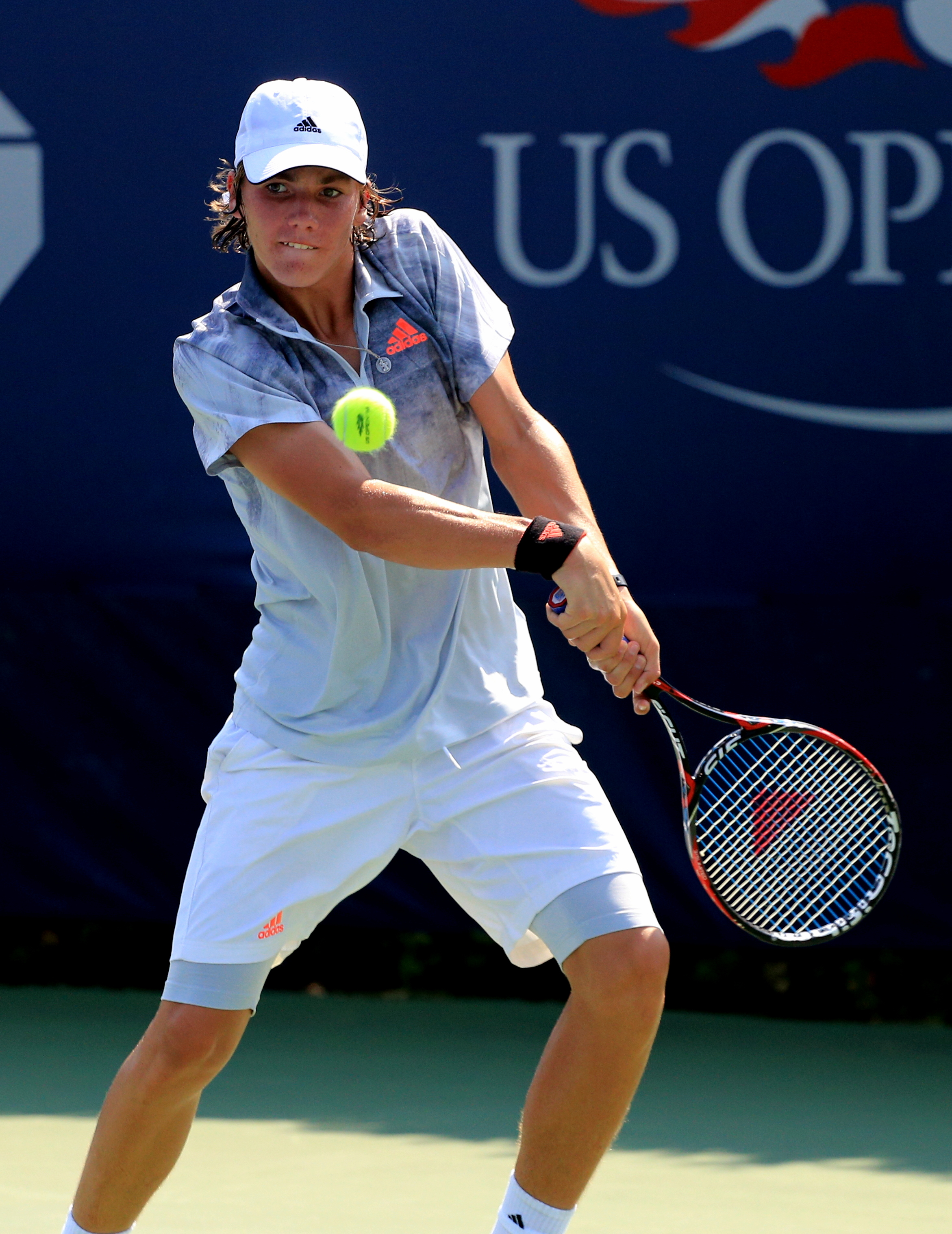 Patrick Kypson at the 2015 US Junior Open